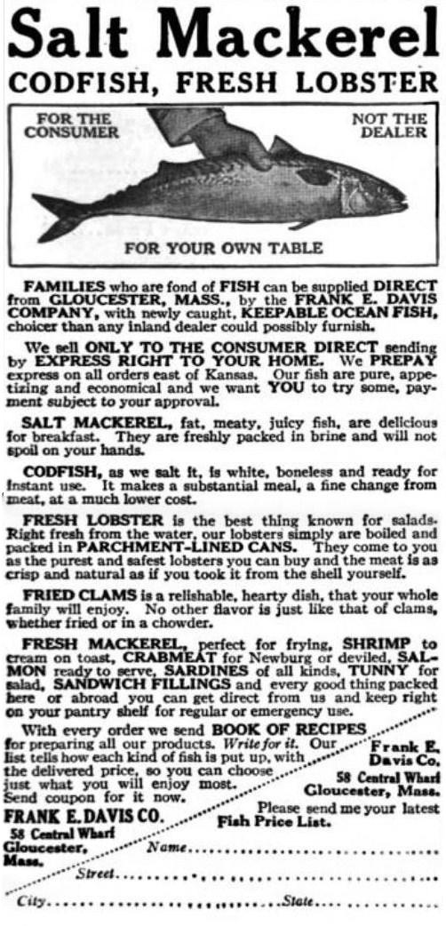 1916 advertisement for mail-delivery fish and seafood from Frank E. Davis Fish Company. Out of the magazine The Outlook (New York).